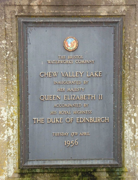 Taken by Rod Ward 31st Jan 2006. Showing the plaque at Chew Valley Lake to celebtrate Queen Elizabth II opening the lke in 1956 Edited by Joe D (t) 03:55, 5 February 2006 (UTC) Rotated 1 degree counter clockwise Decreased green slightly (photoshop curves) Increased contrast slightly (photoshop curves)